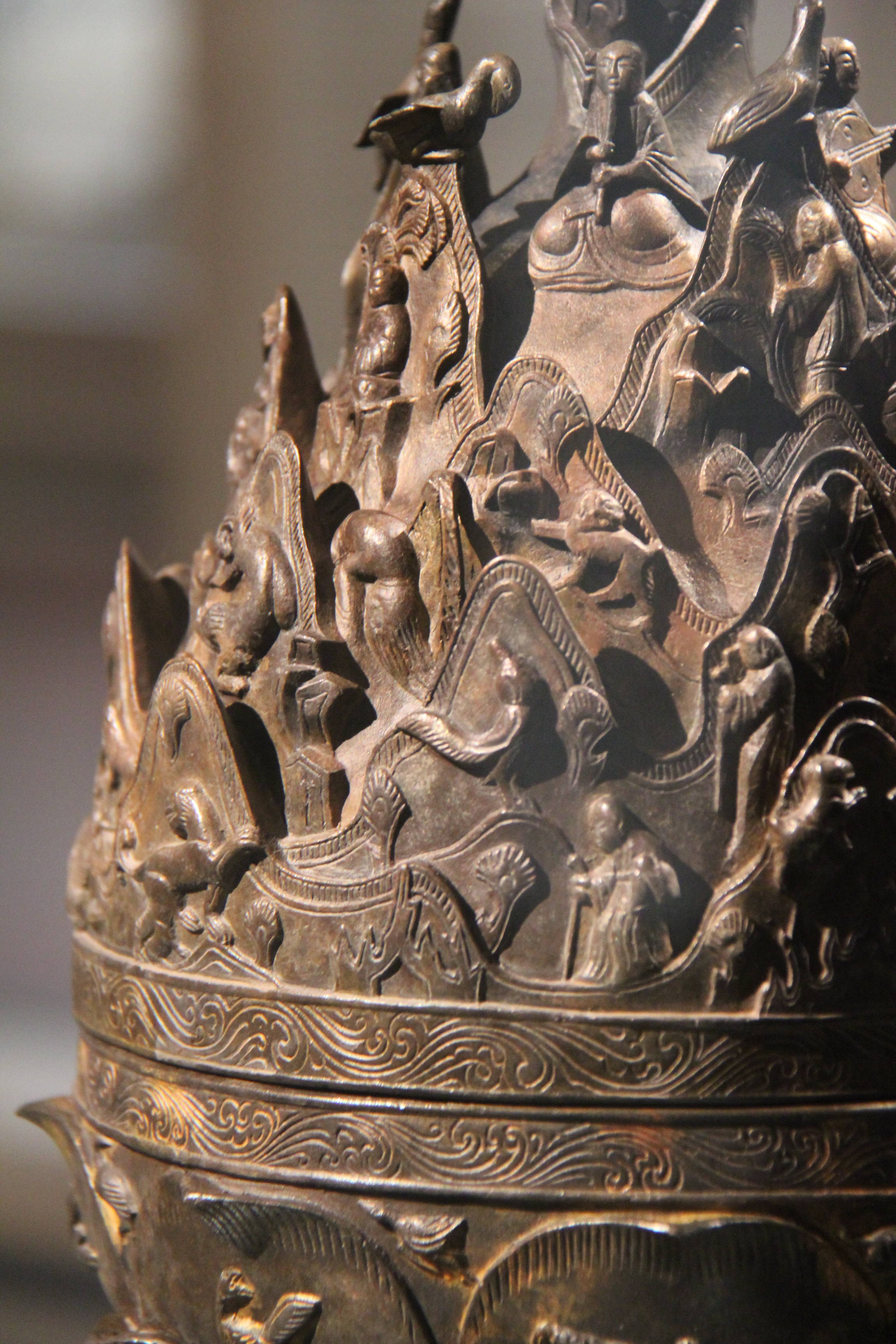 The Korea Culture and Information Service (KOCIS) admitted a new team of contributors for the Worldwide Korea Blog (WKB) with a welcoming ceremony on March 23. The blogging team, consisting of foreign bloggers residing in Korea or overseas, contributes pieces to the official blog of KOCIS, The Korea Blog , and introduces Korean culture to the world through social media services. The bloggers living in Korea were invited to the welcoming ceremony for a report on the activities of the WKB team last year and received a certificate of appointment from Woo Jin-young, director of KOCIS. Then, the group visited the National Museum of Korea where they got a look at national treasures such as a thinking Buddhist image and a golden crown from the Silla Dynasty and tried their hands at Korean folk painting.